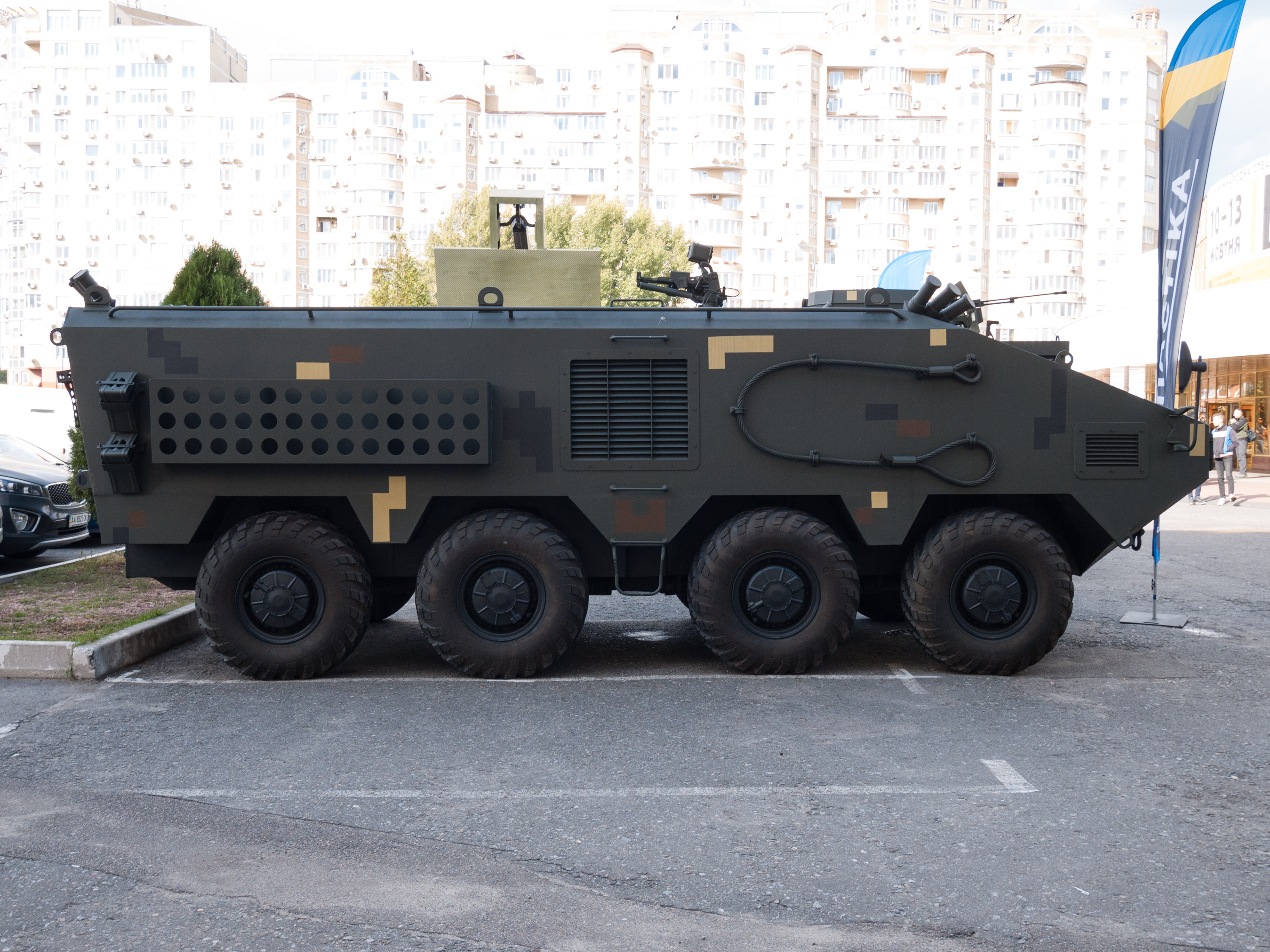 Otaman 8x8 APC (Ukraine)